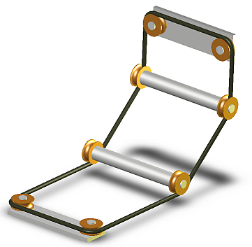 drive belt round shape. Own work. 1st November 2005, Borowski